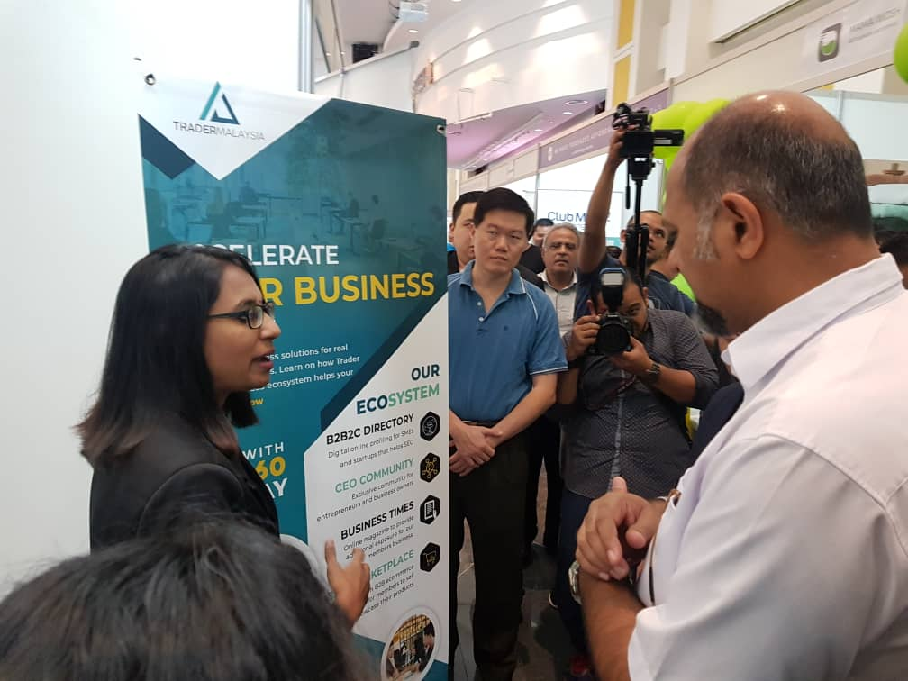 YB Gobind Singh listening to the pitch about the Trader Malaysia Digital Ecosystem designed for SMEs and SMIs in Malaysia. Presented by by the Chief Communication of Trader Malaysia, Meerashini Mahadevan in the sights of all the members of the media.